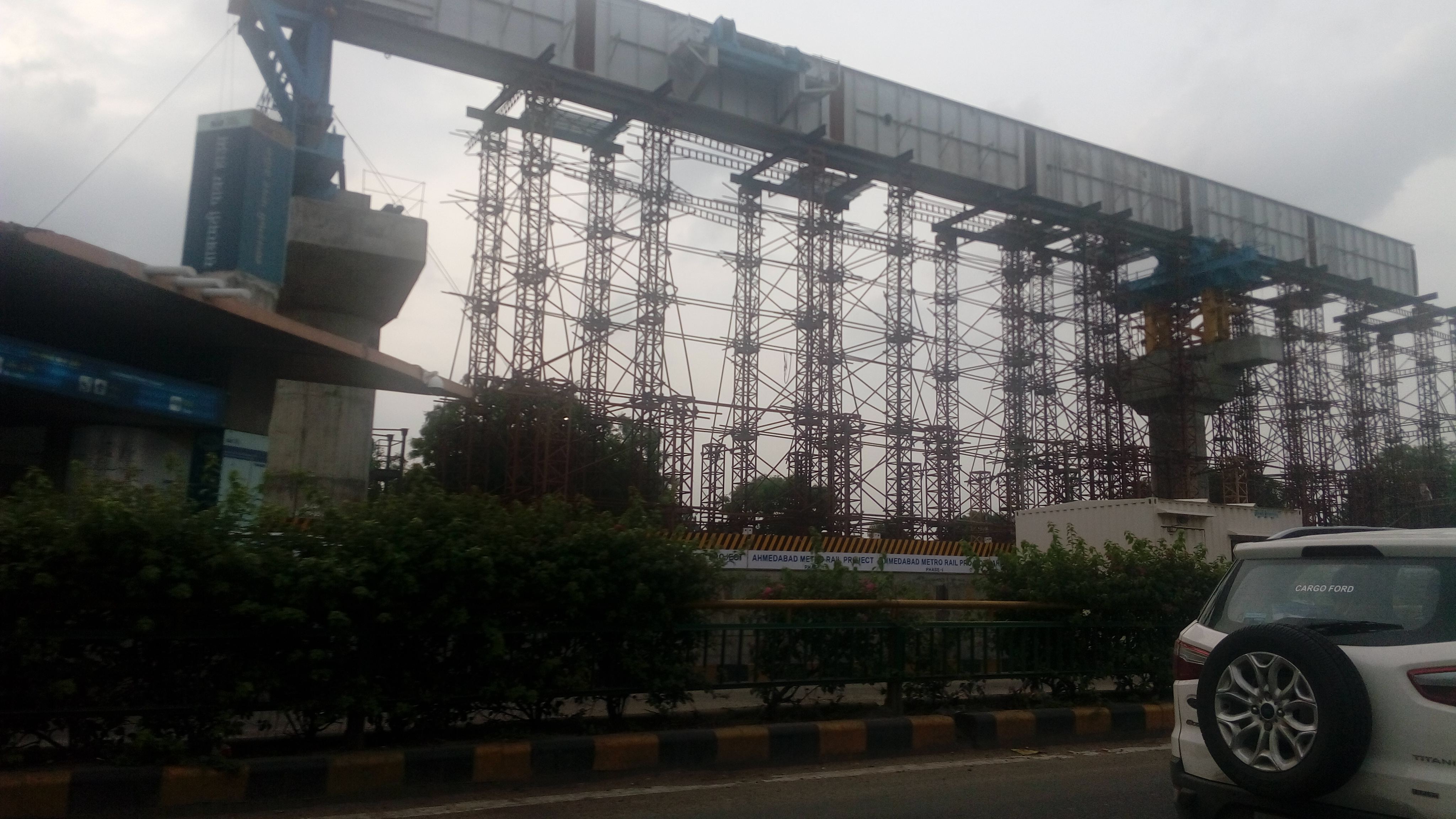 Ahmedabad Metro North South Line Underconstruction near Sabarmati Powerhouse and Sabarmati Railway Station 9 July 2017.